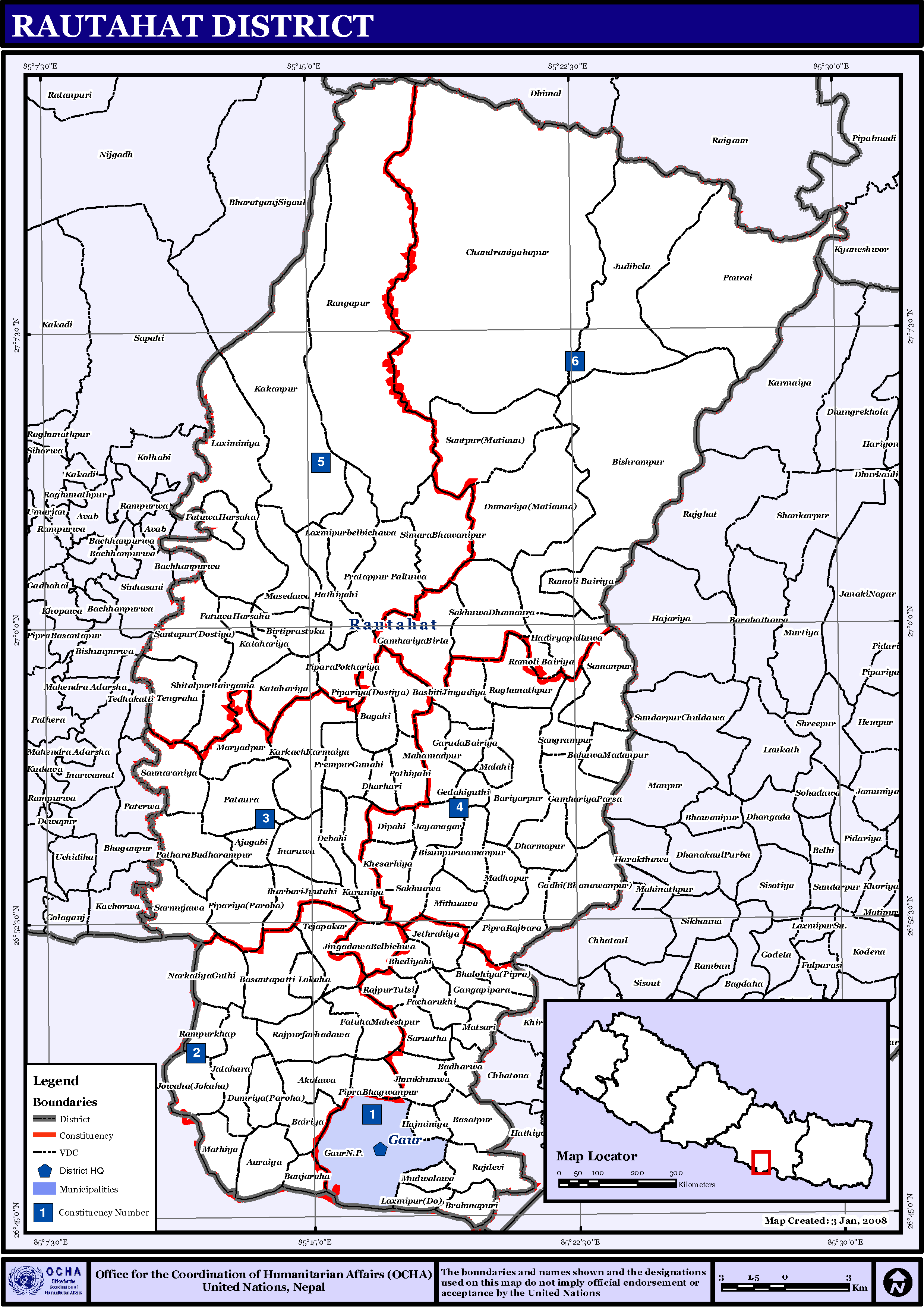 Map displaying Village Development Committees in Rautahat District, Nepal